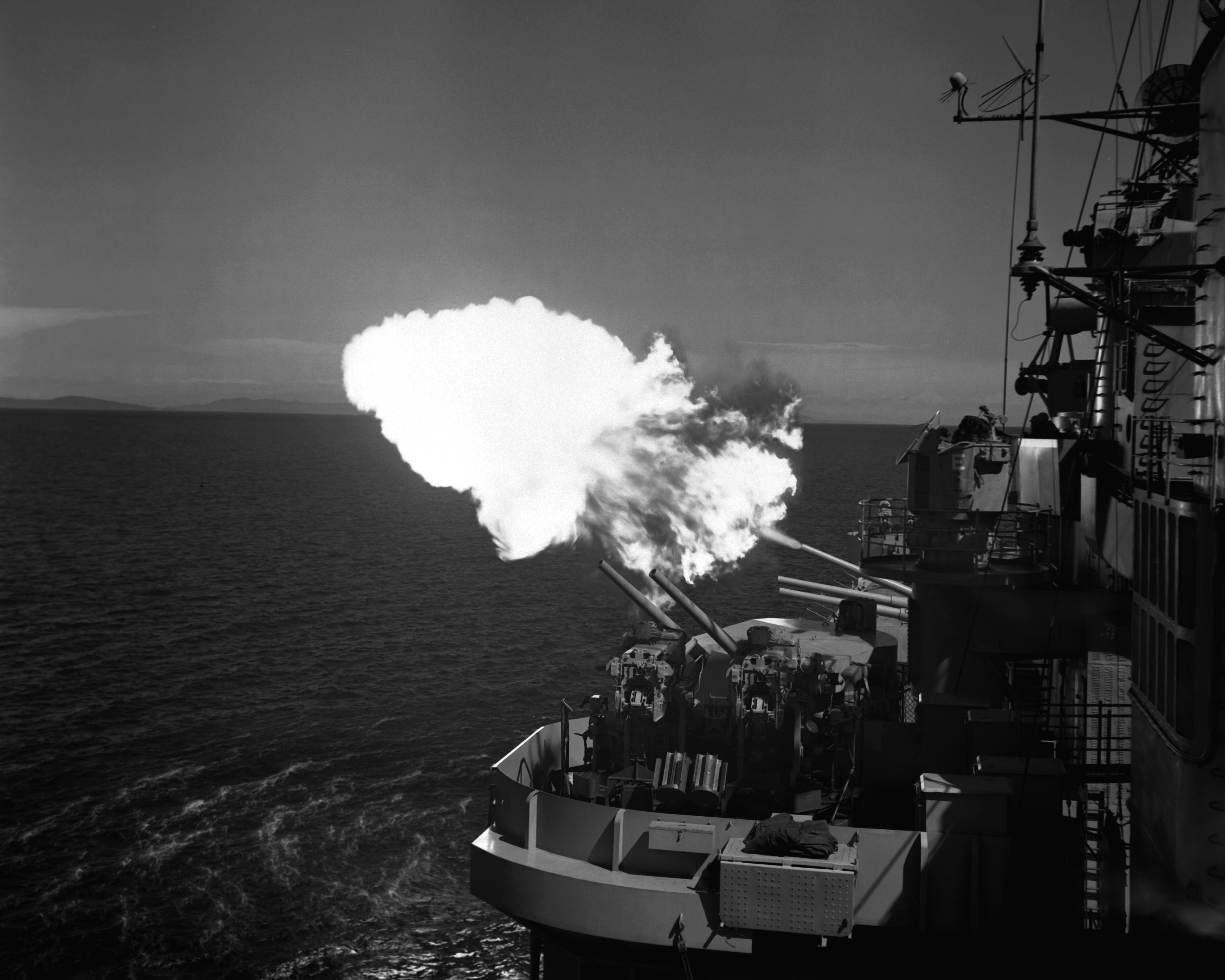 The heavy cruiser USS Saint Paul (CA-73) near Wonsan, Korea, on 27 July 1953, just before signing of truce at Panmunjon. A 12.7 cm (5 in) shell is fired from ship against North Korean shore batteries. This round is believed to have been the last fired on enemy positions by UN Naval units before the armistice.